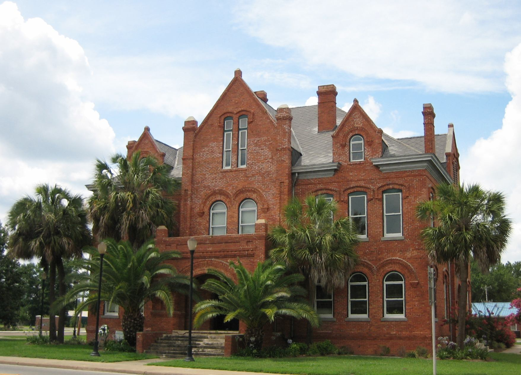 Old Courthouse Building of Calhoun County, Florida, USA; in Blountstown